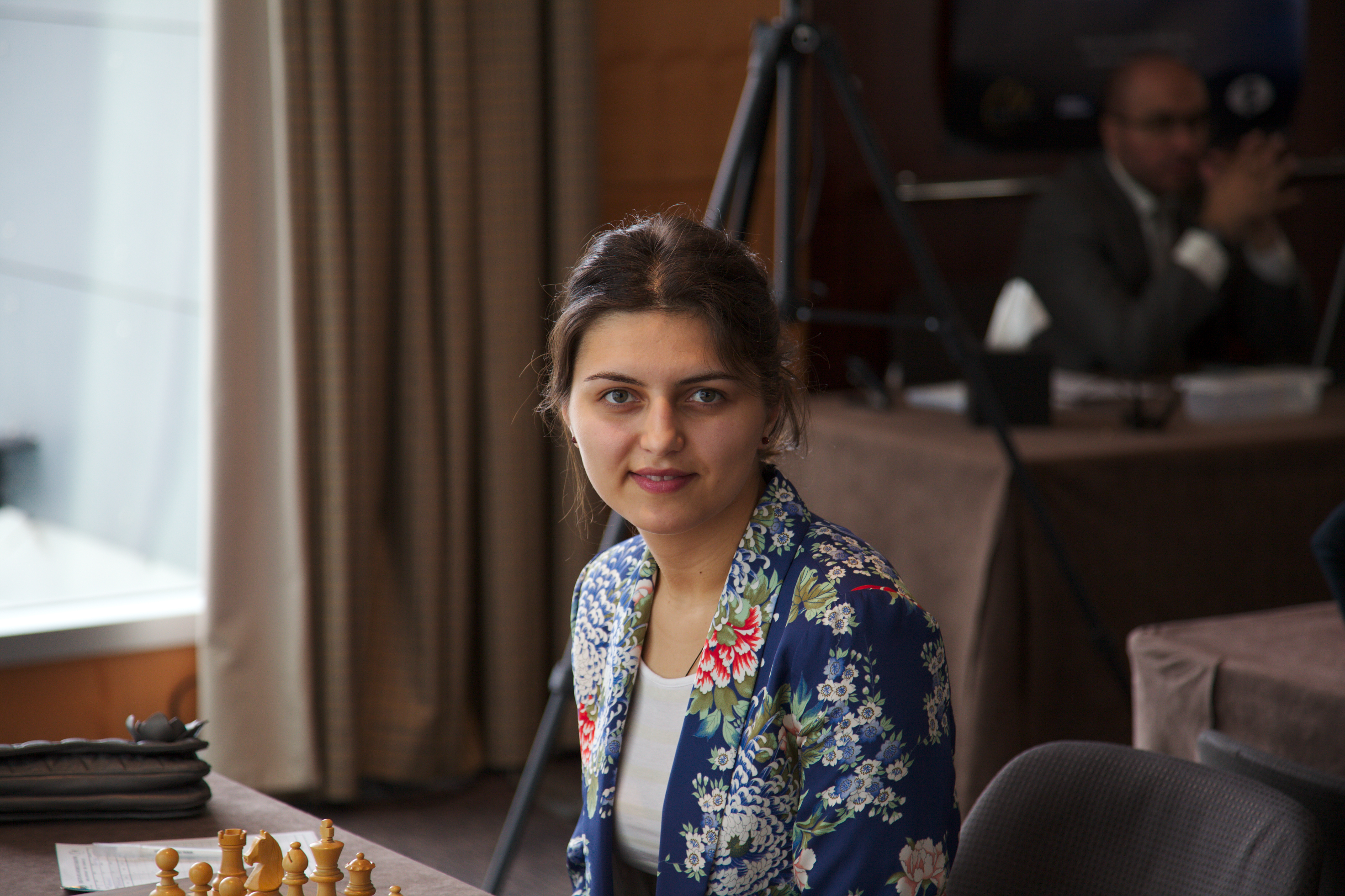 Fondation Neva Women's Grand Prix Geneva 09-05-2013 Fondation Neva Women's Grand Prix Geneva 09-05-2013 - Bela Khotenashvili